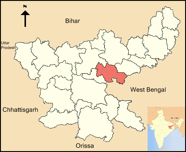 A locator map of Bokaro district of Jharkhand state in India.